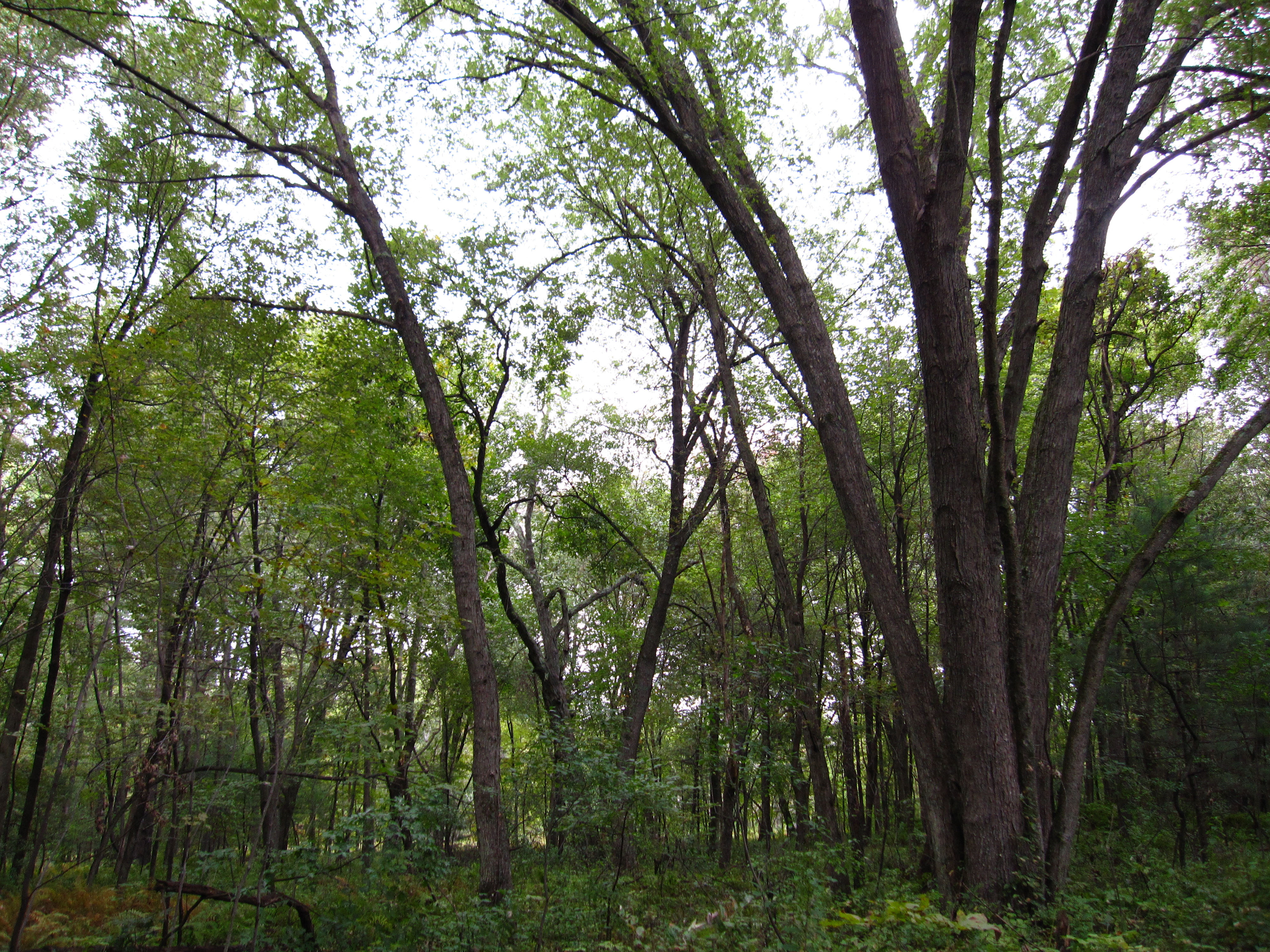 Silver Maple Acer saccharinum forest at Oxbow NWR, Still River, Massachusetts, USA.